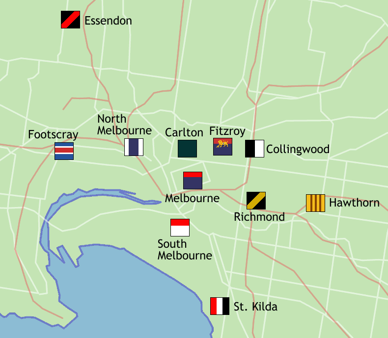 Locations of AFL teams, including former teams (South Melbourne was moved to Sydney and became the Sydney Swans; Fitzroy merged with the Brisbane Bears in 1996; Footscray renamed Western Bulldogs) in Melbourne